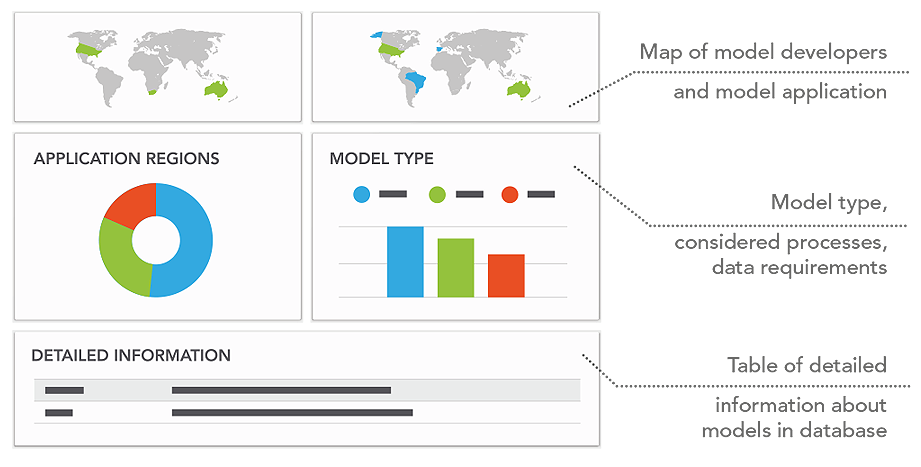 The simplified representation of Nexus Tools Platform functionality